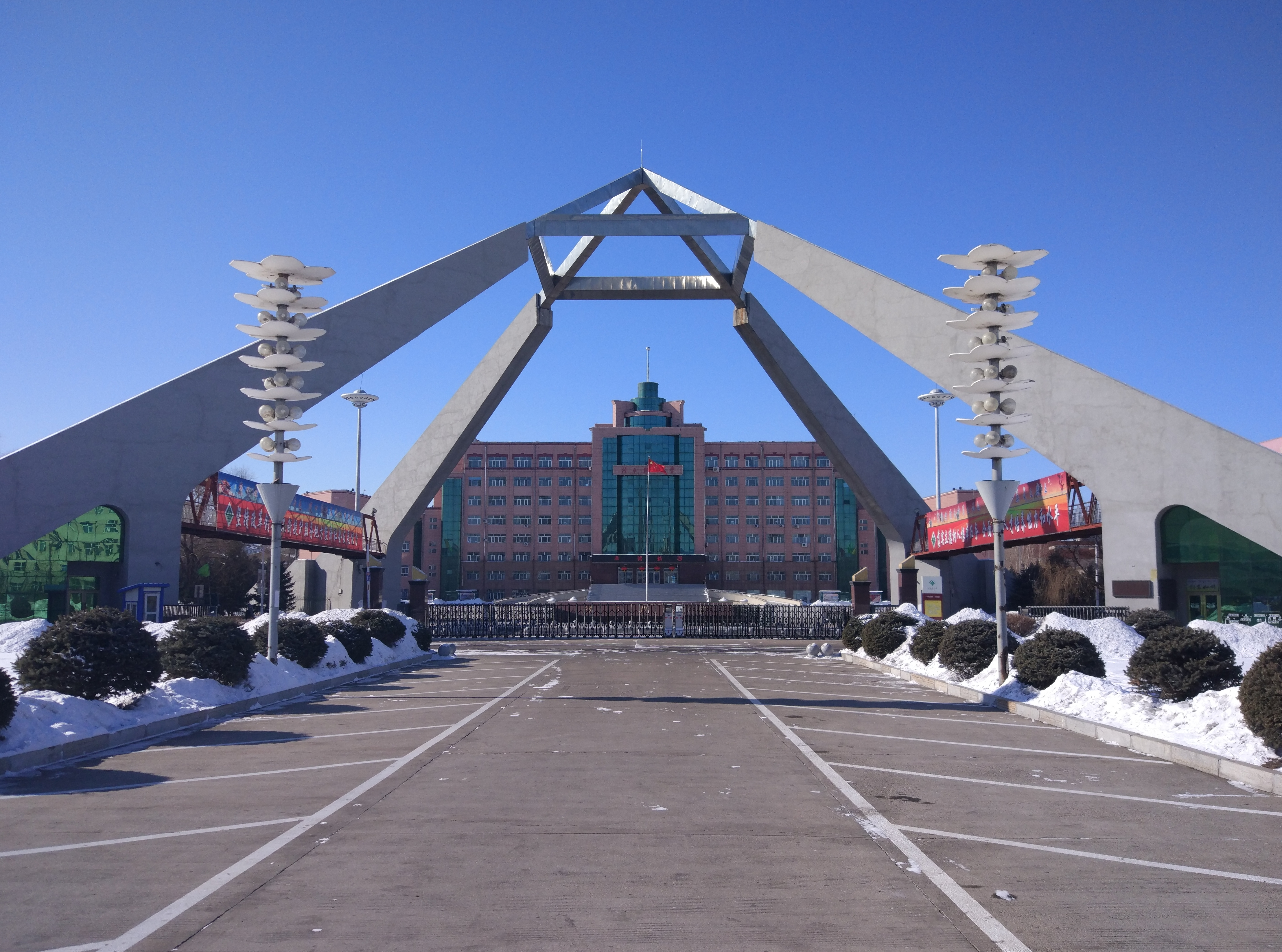 A huge overpass between two campuses of Jiamuai University, the symbol of Jiamusi University